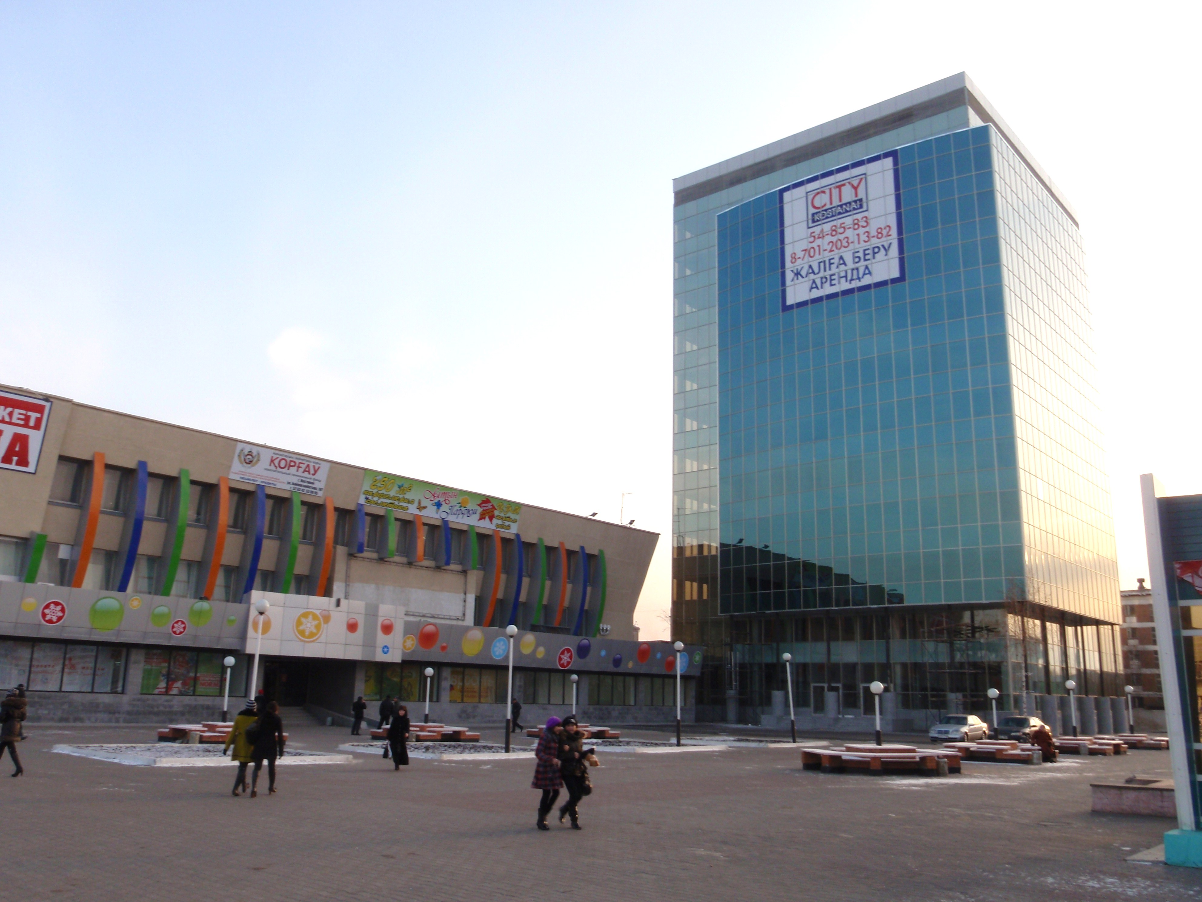 Photo from Kostanay